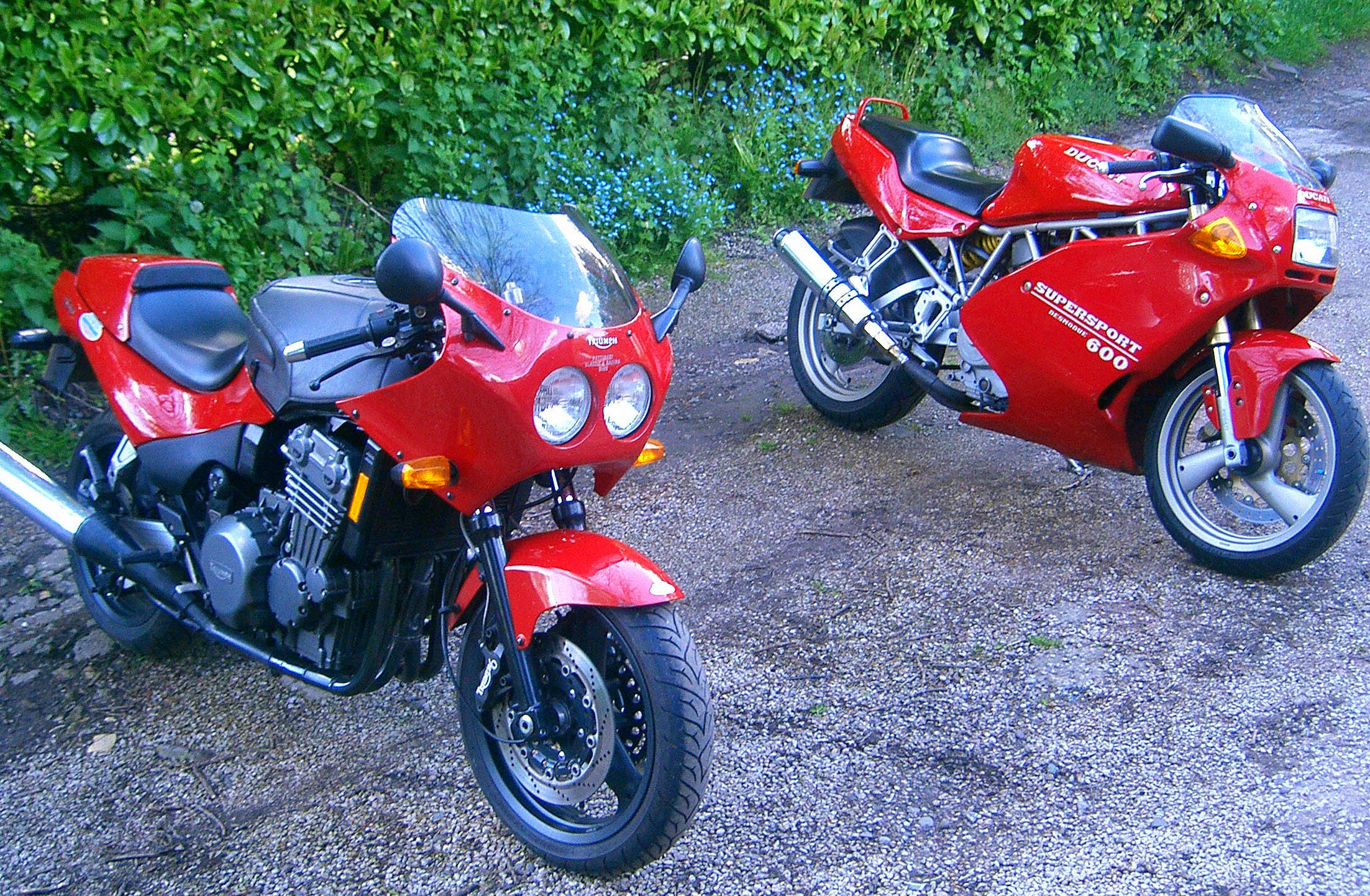 Triumph Dytona Sprint Special and Ducat 600SS